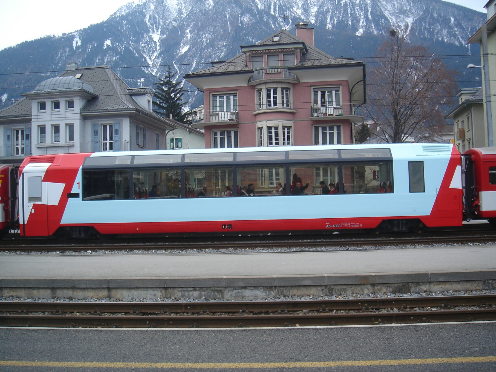 Matterhorn Gotthard Bahn panoramic coach Api 4033, built by Breda for Brig-Visp-Zermatt as As 2013, found in its winter duty in Brig-Zermatt push-pull consists at Brig